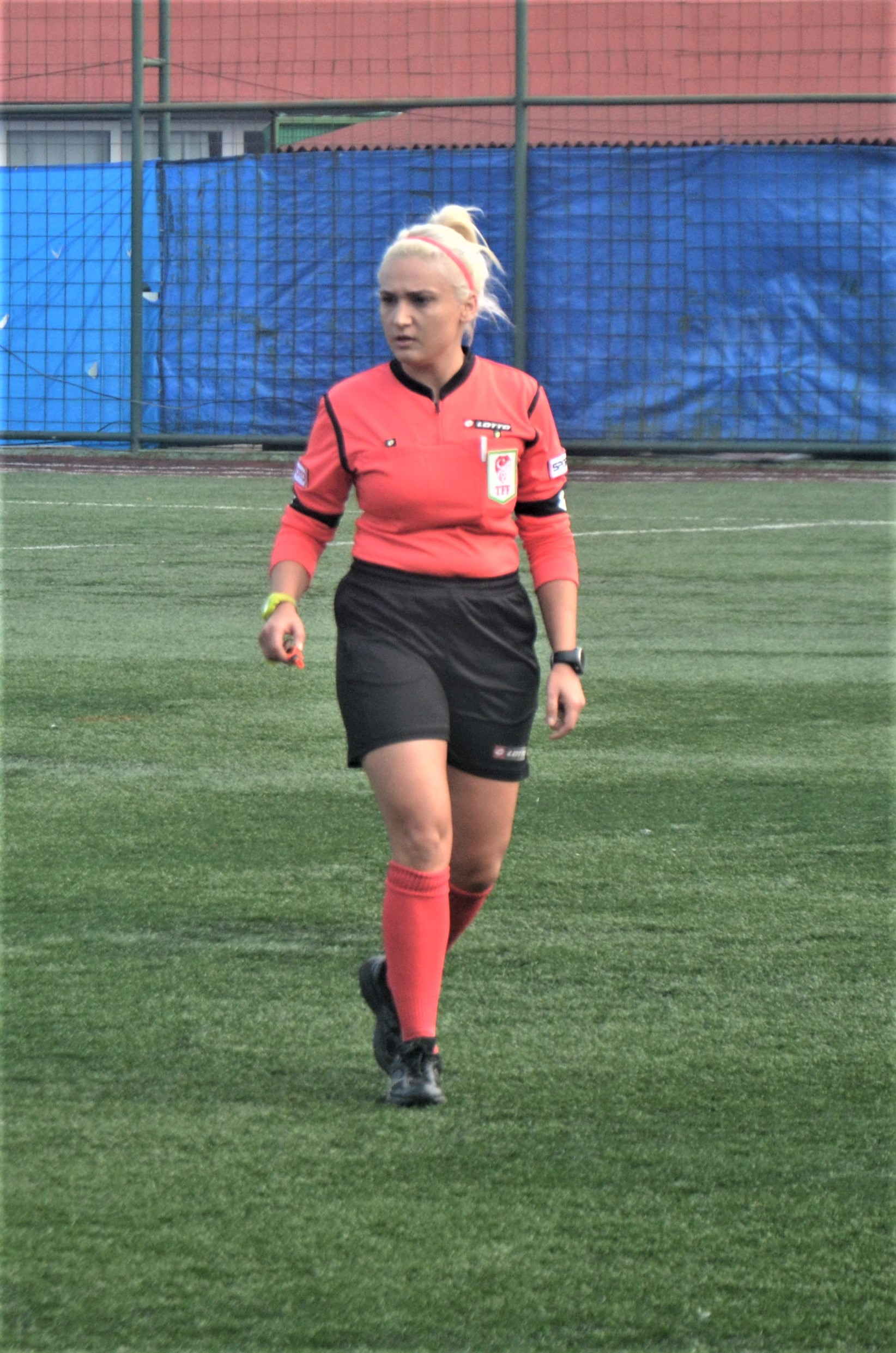 Elif Köroğlu officiating a Turkish Women's First League match as referee.